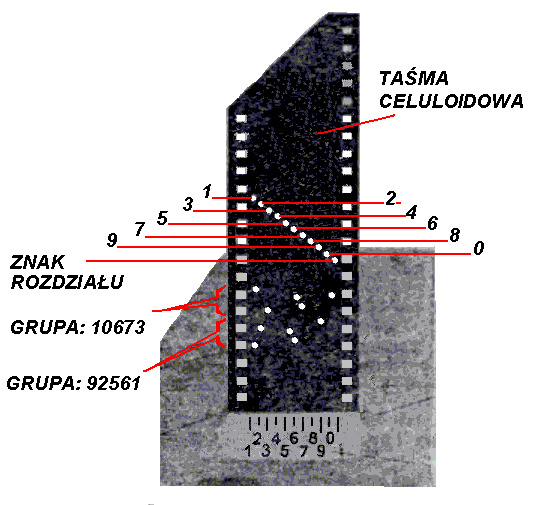 The encoding of five-digit groups on tape to give the R-350M radio.